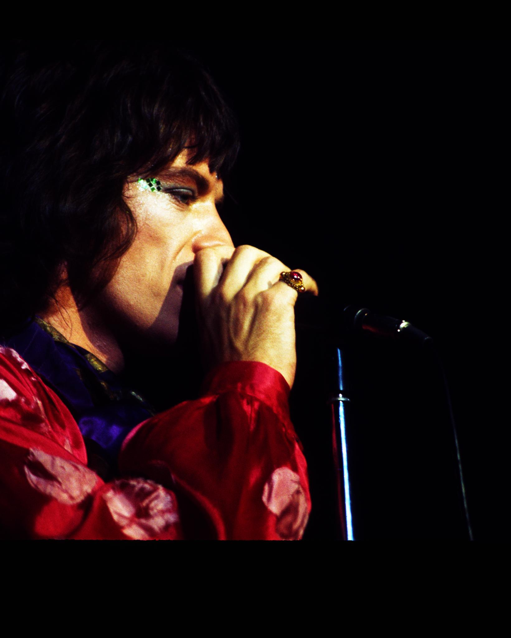 Mick Jagger with The Rolling Stones 1972 tour at Winterland in San Francisco, in June